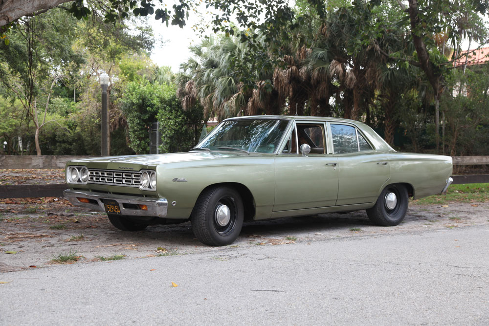 Left-hand 3/4 shot of a 1968 Plymouth Satellite. Example has been de-trimmed, and best represents a 1968 Plymouth Belvedere.